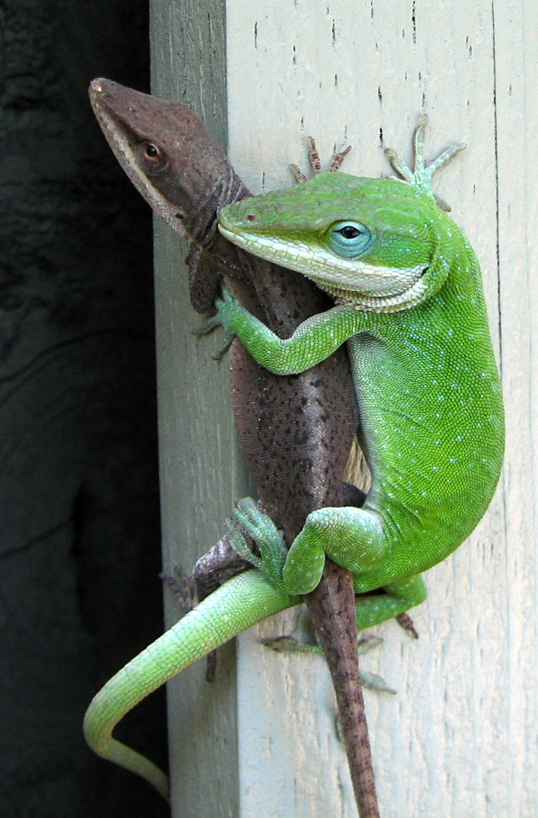 Two Carolina Anoles (Anolis carolinensis) mating. Original description at Flickr read: "lizard love"